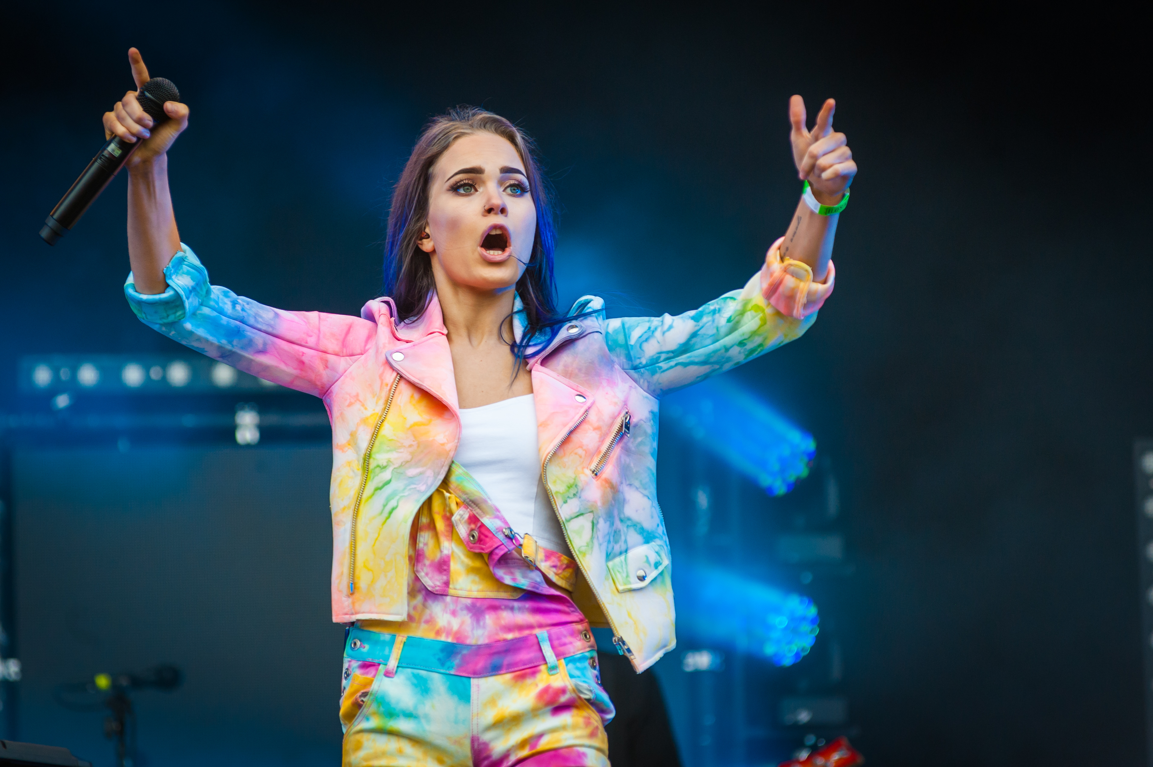 Finnish pop singer Sanni performing at the Ilosaarirock festival in Joensuu, Finland.